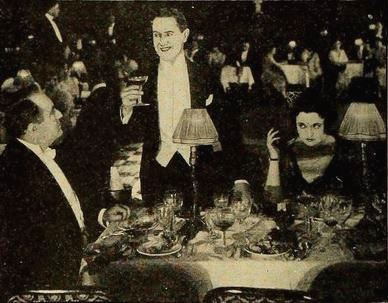 Still from the American film Upside Down (1919) with Roy Applegate (1878 – 1950), Taylor Holmes (standing), and Ruby Hoffman, on page 6 of the August 1919 Film Fun.